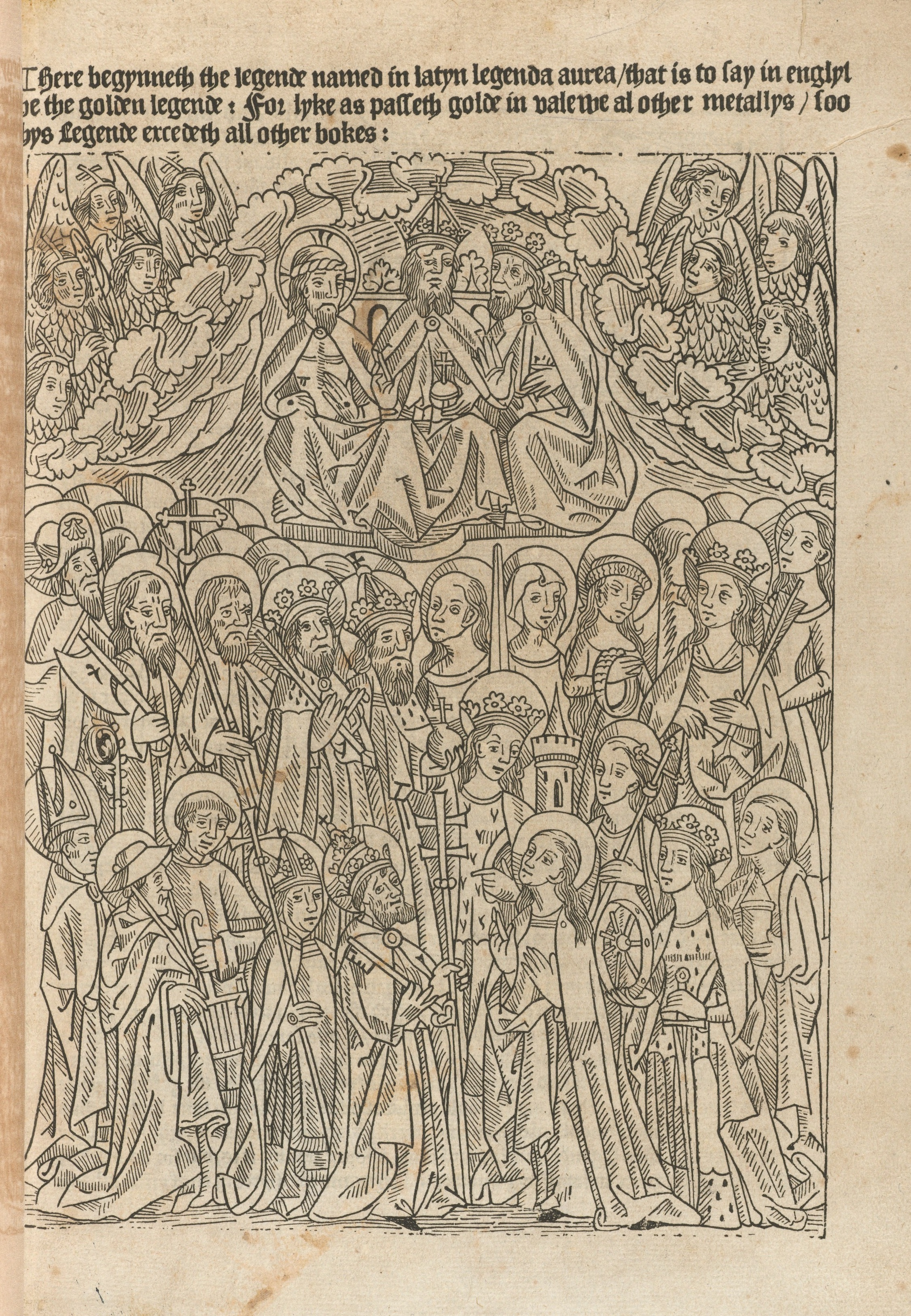 Jacobus, de Voragine, ca. 1229-1298. Illustration from Legenda aurea [The Golden Legend], 1493. Caption: "Here begynneth the legende named in Latyn Legenda aurea = that is to say in Englysh, the Golden legende: for lyke as passeth golde in valewe al other metallys, soo thys legende excedeth all other bokes." WKR 1.3.4, Houghton Library, Harvard University